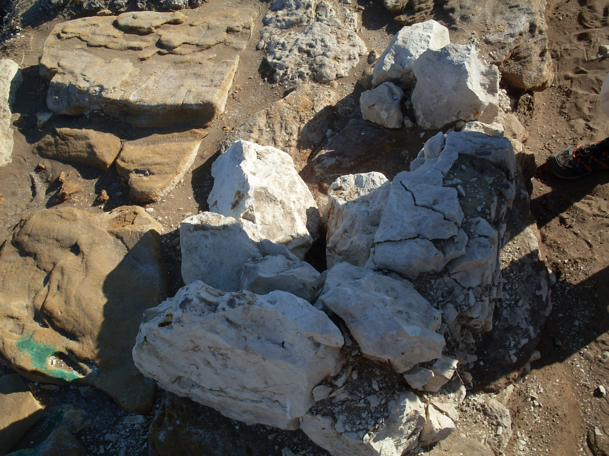 Khazar fortress at Sarkel (Belaya Vyezha, Russia). Excavations 2009